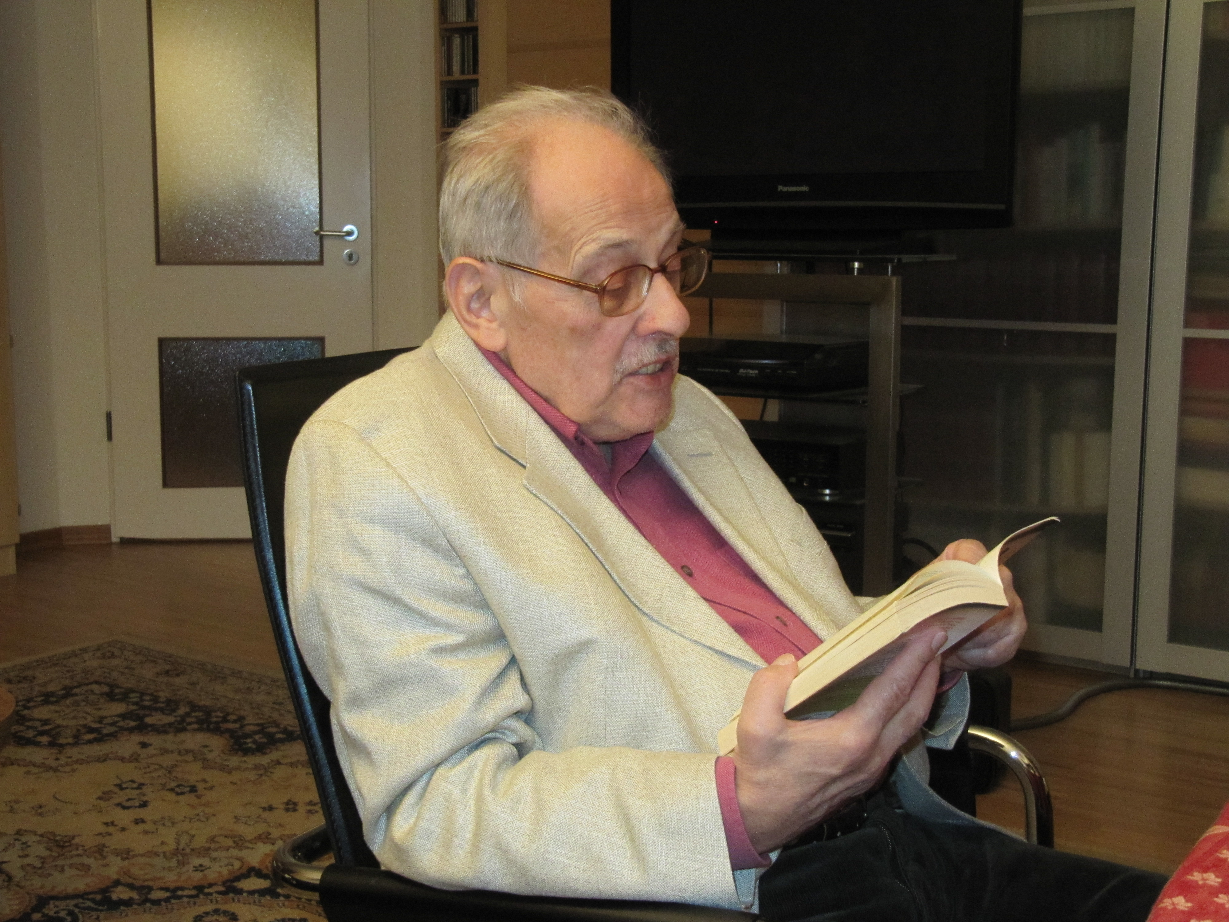 The Picture depicts Werner Rossade in his Flat in Munich in December 2011